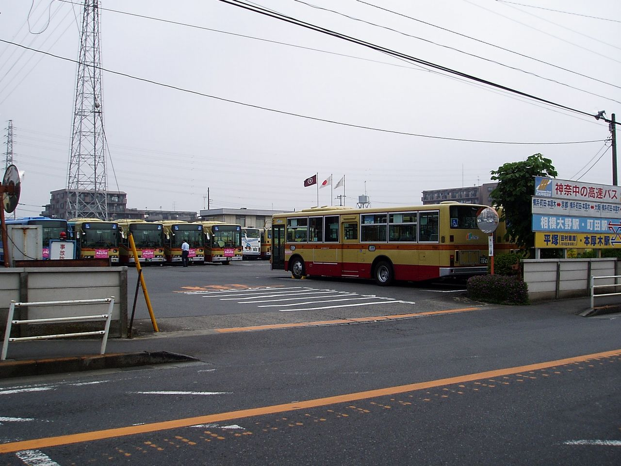 Kanagawa Chuo Kotsu Yamato Branch